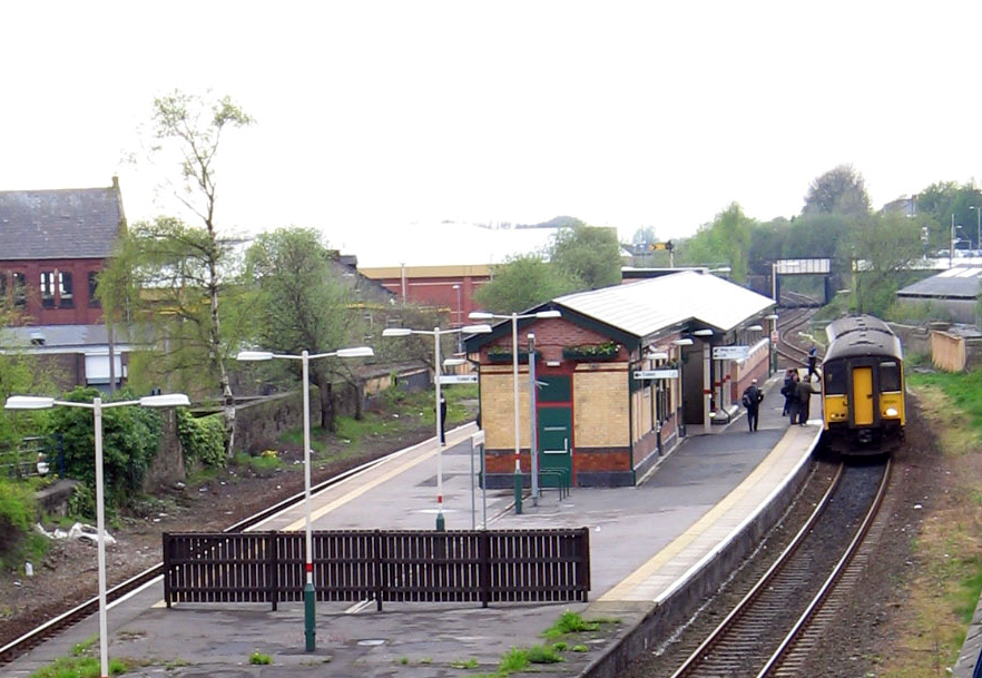 Ashton-under-Lyne railway station